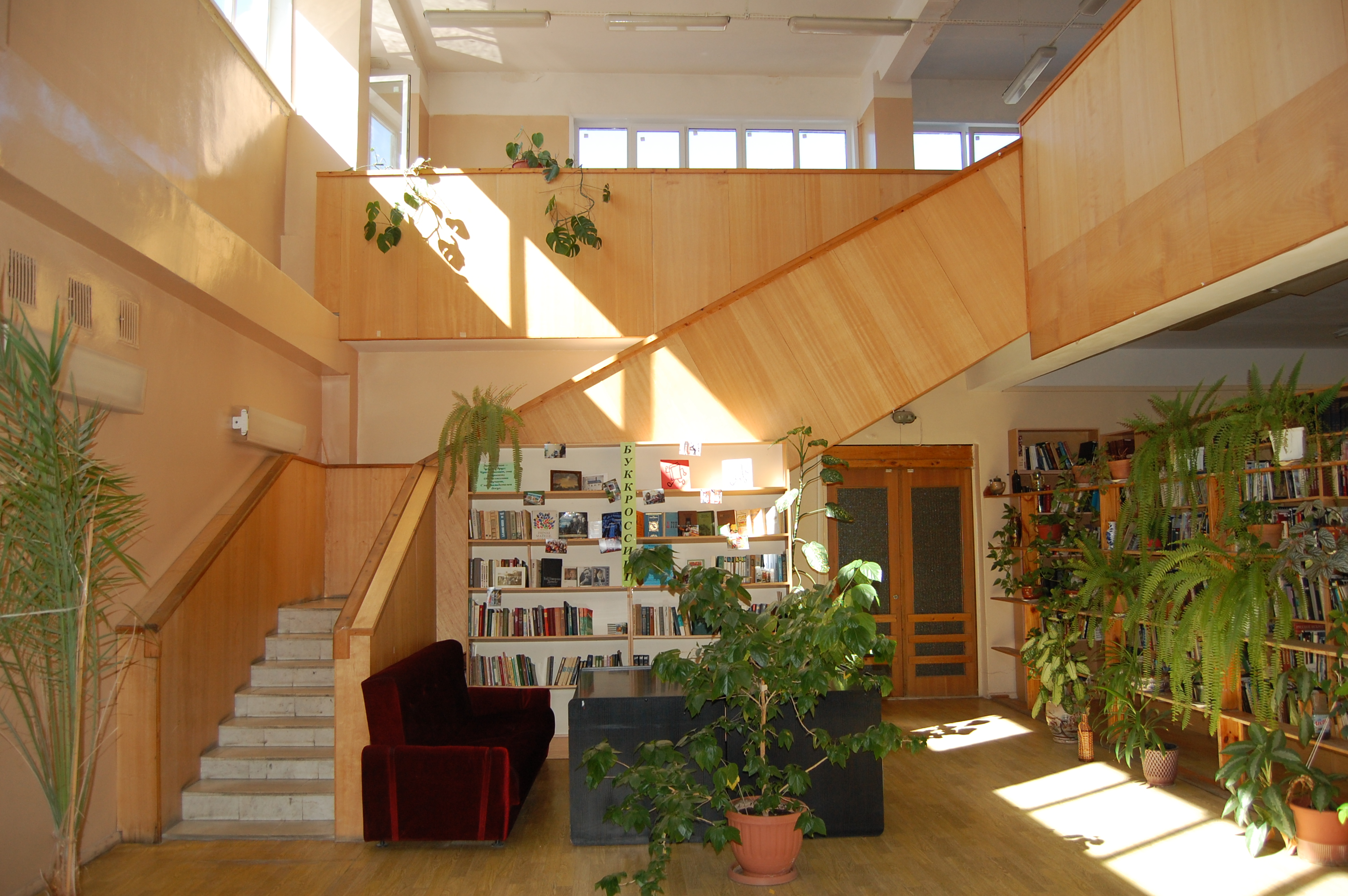 Library at the Dubna University, Moscow oblast